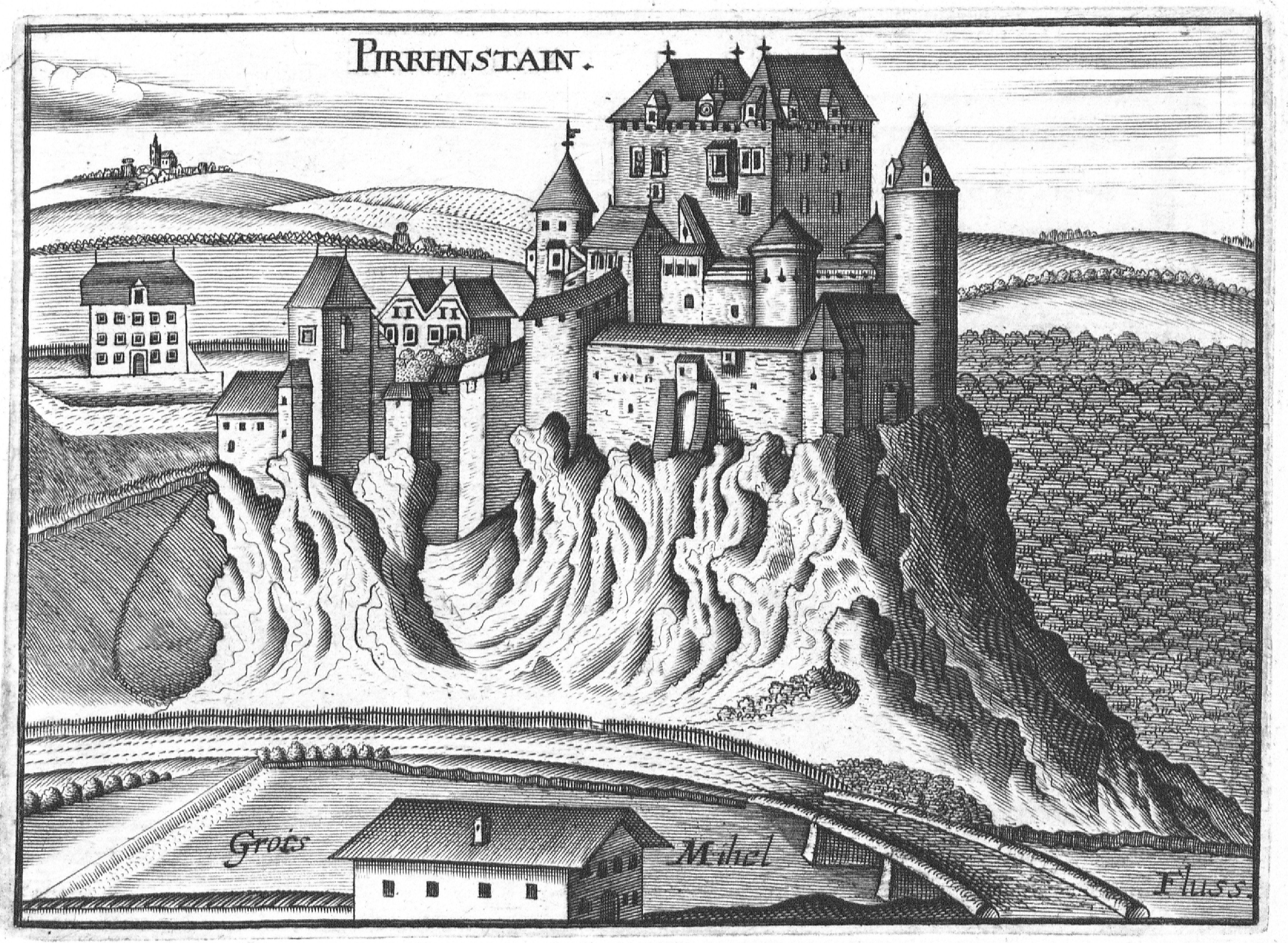 Engraving, view of Pürnstein castle, Upper Austria